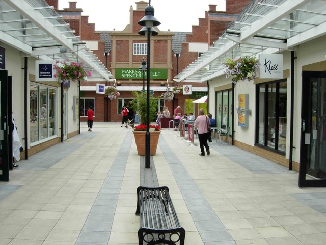 Springfields. Springfields is a retail village on the outskirts of Spalding with a range of factory outlet stores.